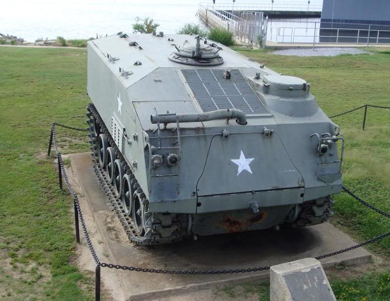 Armored Infantry Vehicle